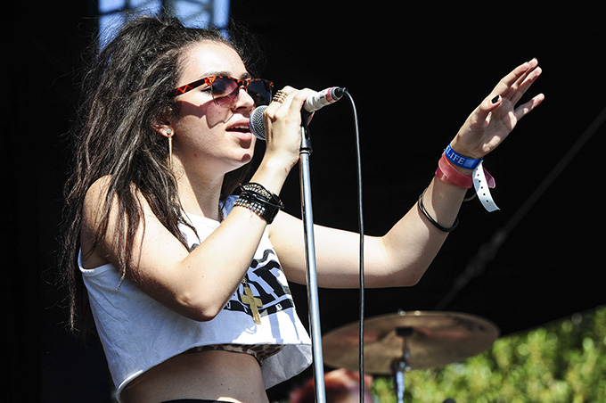 Parklife Festival 2012